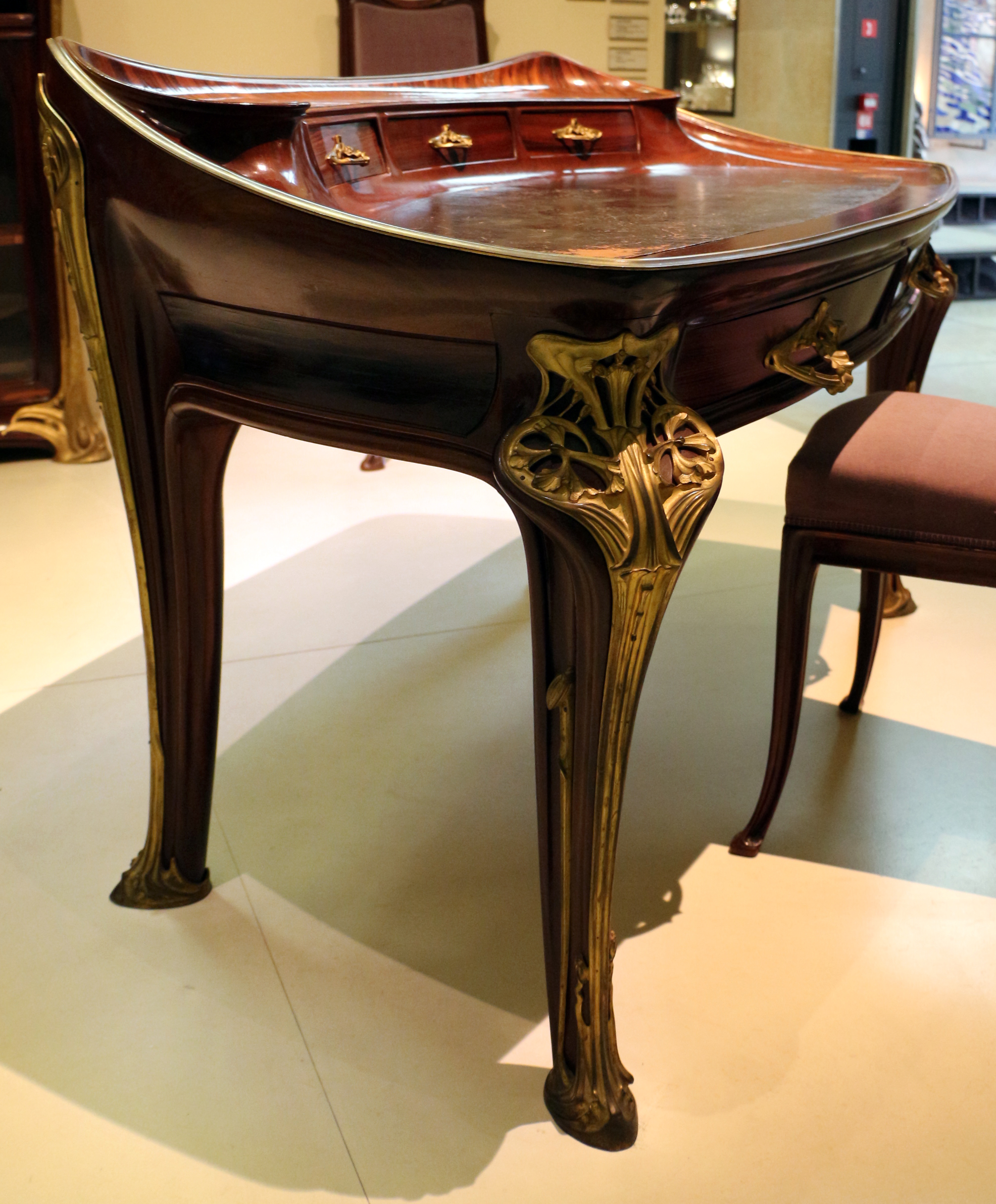 Furniture by Louis Majorelle